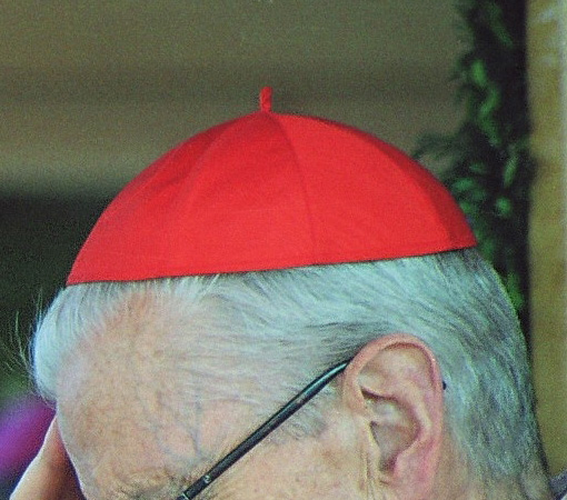 A red zucchetto, as worn by cardinals.